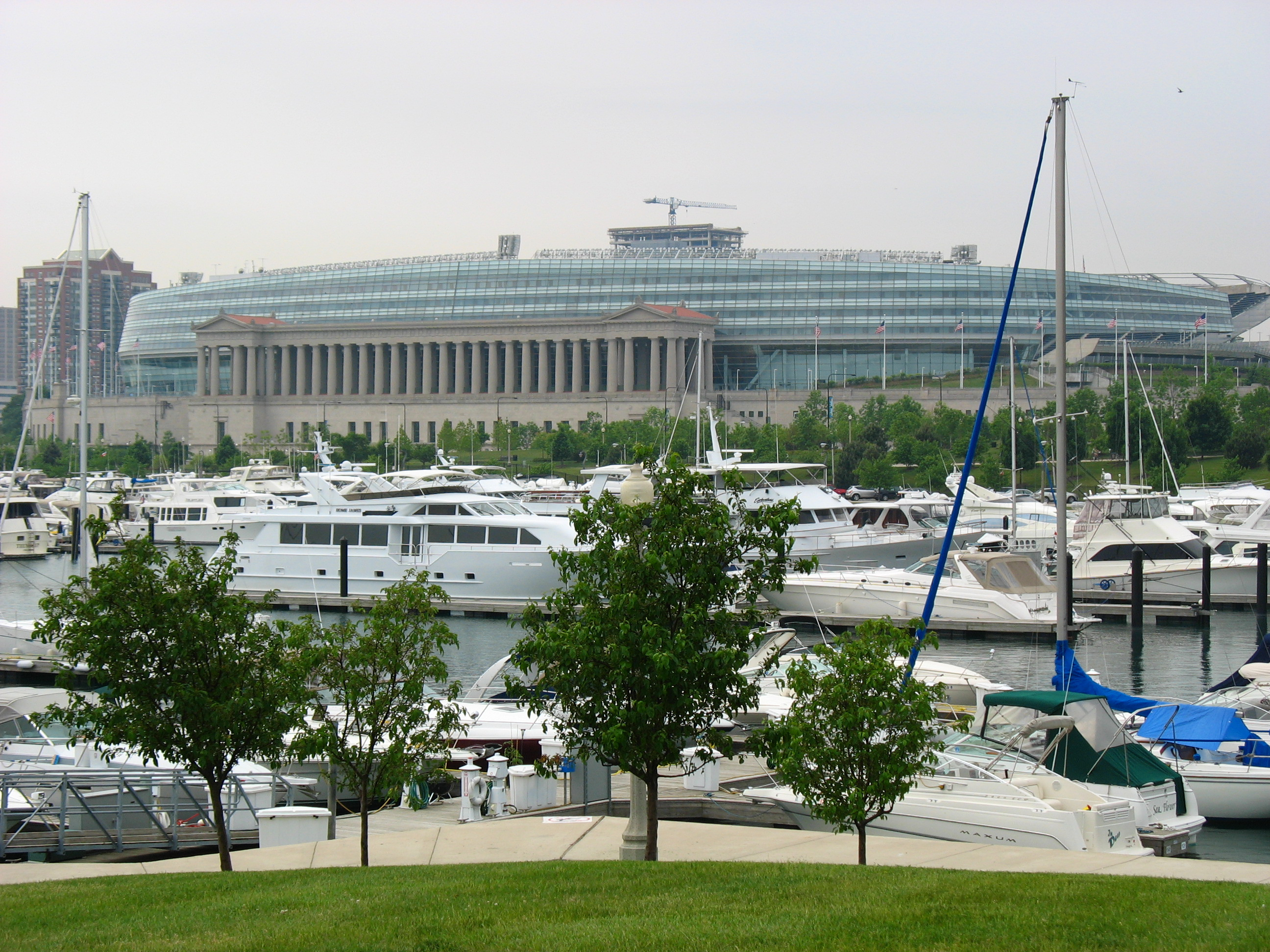 view of Soldier Field from Northerly Island